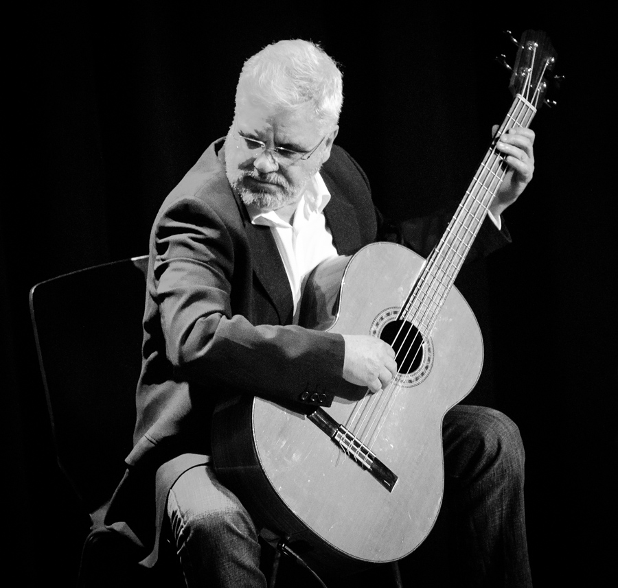 Fernando Júdice with Katia Guerreiro at Cosmopolite. The concert took place on 26. January 2018 in Oslo. Lineup: Katia Guerreiro (vocal), Luís Guerreiro (Portuguese guitar), João Veiga (guitar) and Fernando Júdice (double bass).